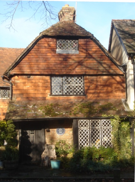 Old Plough Cottage, The Street, Ifield, Borough of Crawley, West Sussex, England: the original "Plough Inn" before a replacement was built next door in ~1900. Now a cottage, it dates from 1600. Listed at Grade II by English Heritage (IoE code 363400)